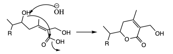 Proposed mechanism for 6-membered lactone ring formation in the biosynthesis of Withaferin A.